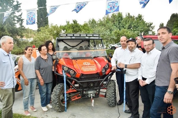 טקס השקת רכב שטח לעילוי נשמת תת אלוף ארז גרשטיין ז"ל